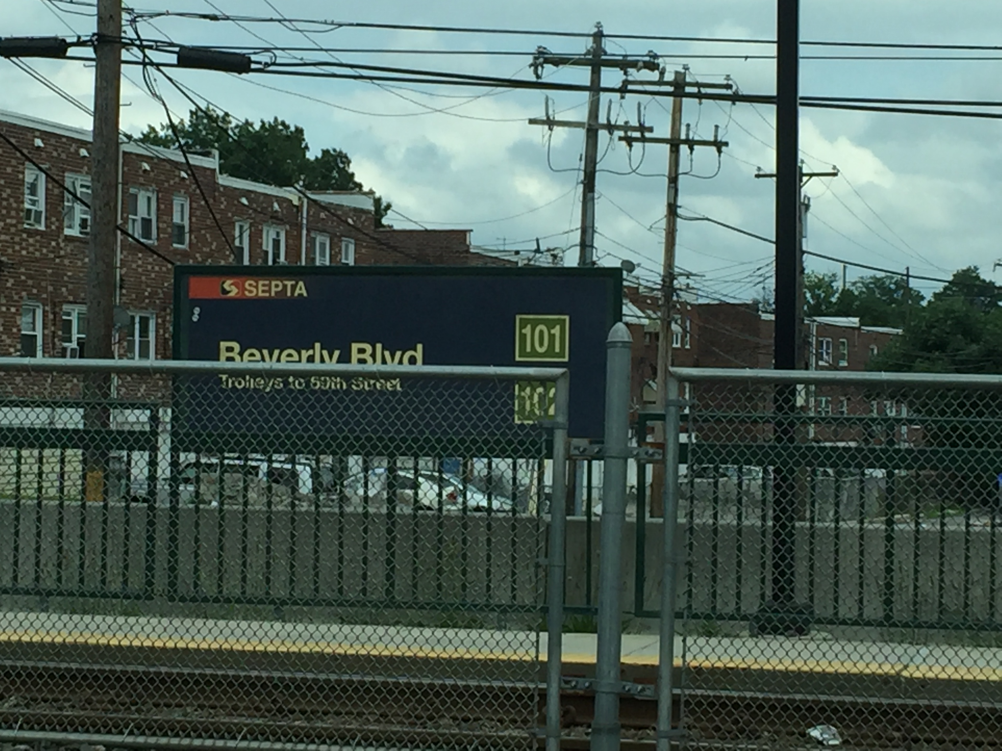 Beverly Blvd station